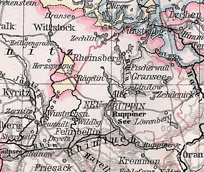 Detail from a map of Brandenburg.